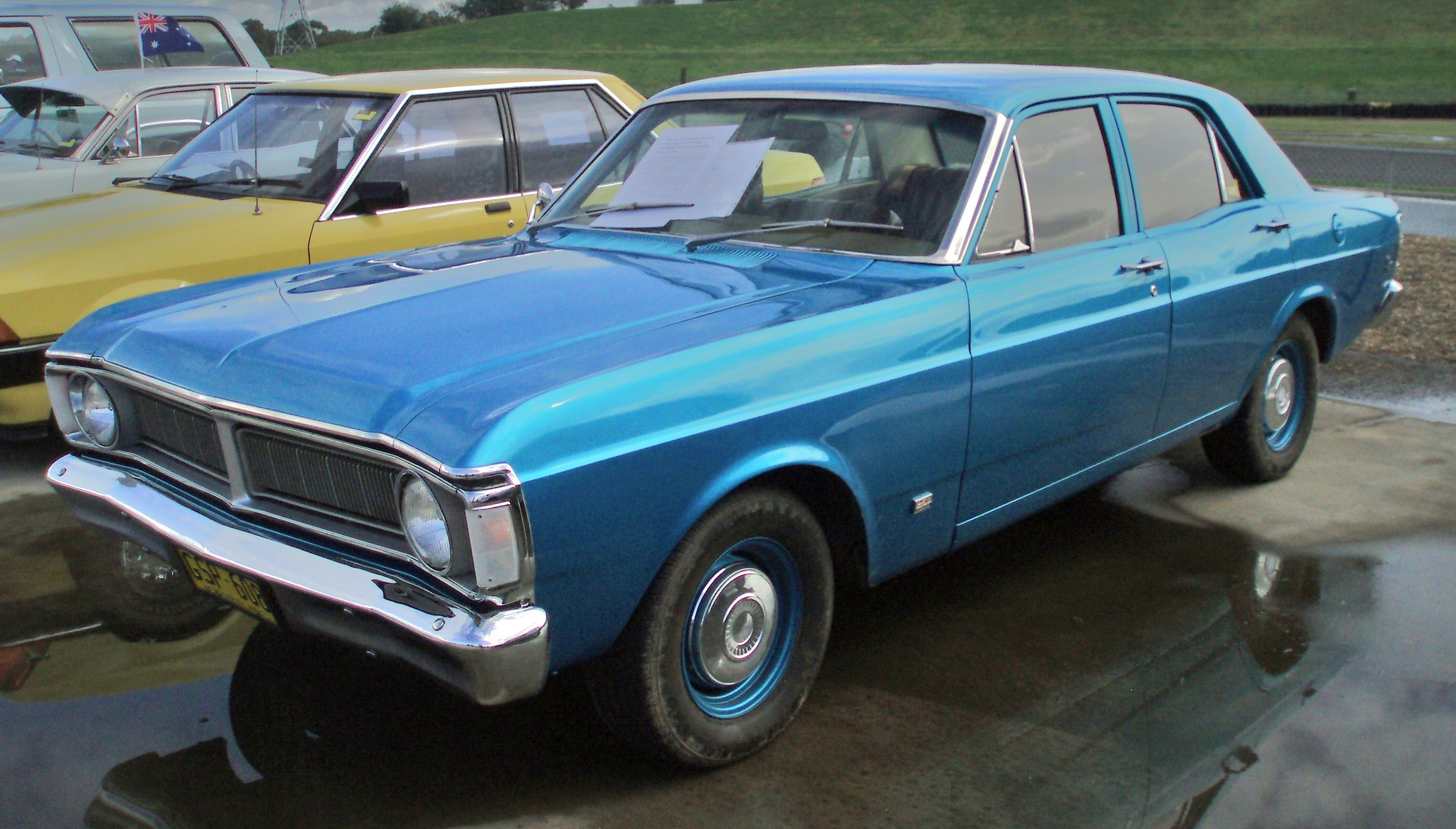 1971 Ford XY Falcon standard sedan. Formerly used by the New South Wales Police as an unmarked pursuit car, this is a base model Falcon fitted with the 250 2V performance version of the six cylinder engine, as well as a top loader four speed manual and limited slip diff. A real wolf in sheep's clothing. The full story is on the windscreen card. Taken at the New South Wales All Ford Day 2009, held at Eastern Creek Raceway Sydney.